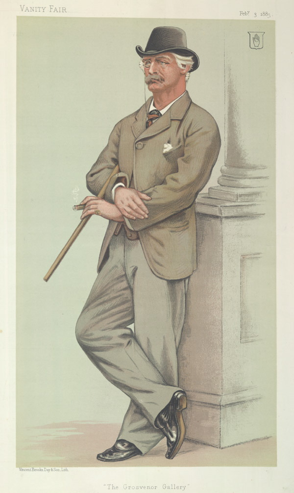 Men of the Day No.274: Caricature of Sir C Lindsay Bt. Caption reads: "The Grosvenor Gallery"